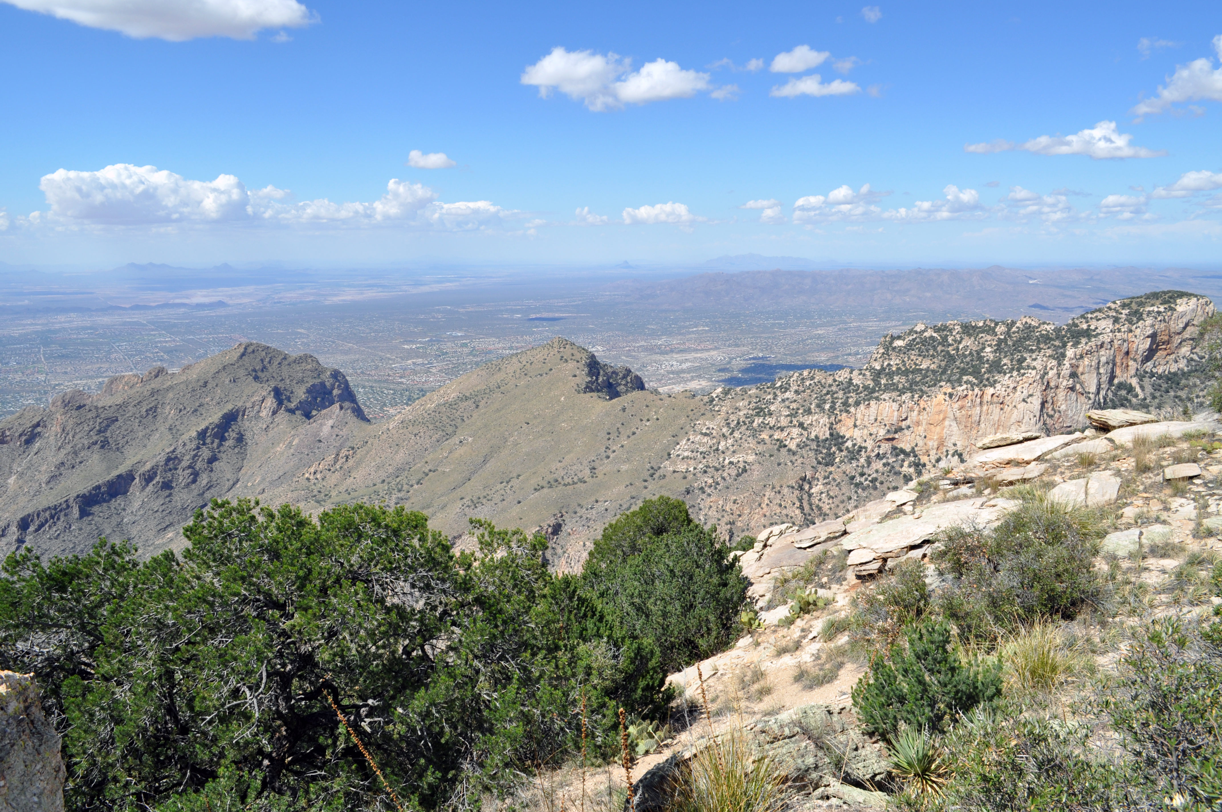 Pusch Ridge from the western summit of Prominent Point. Pusch Peak is on the left, Bighorn Mountain is in the middle, and Table Mountain is on the far right.